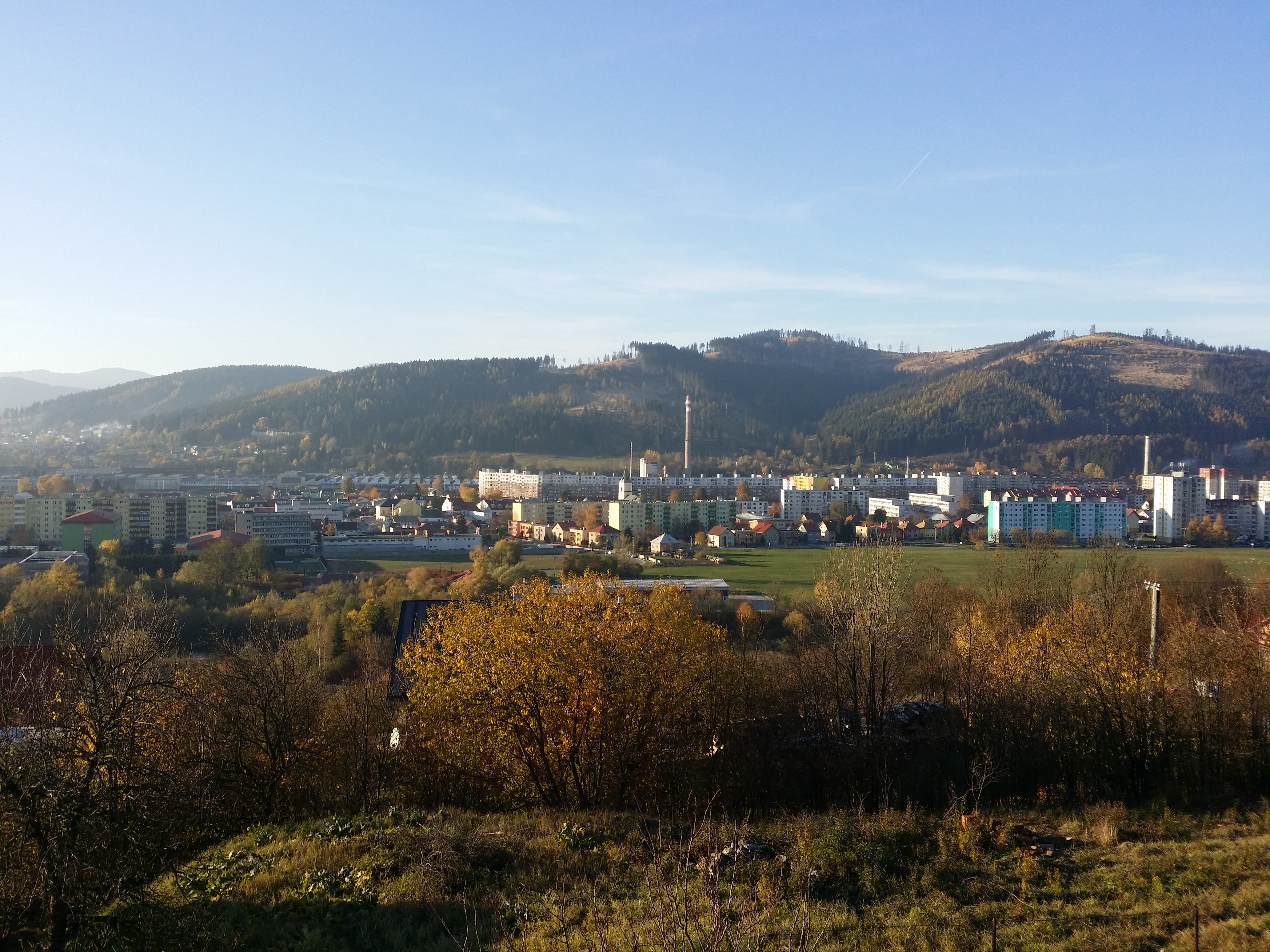 View on Kysucké Nové Mesto, 2015